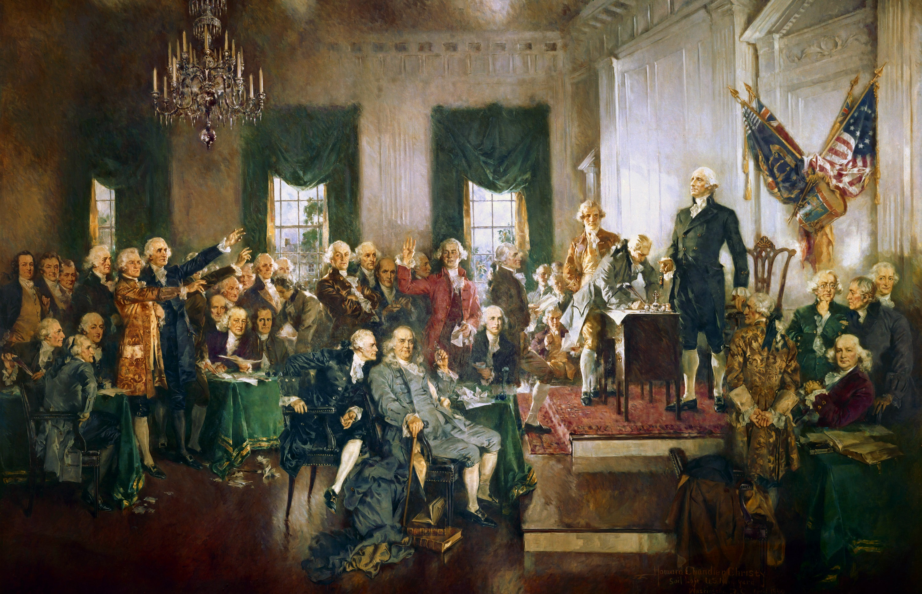 George Washington presiding the Philadelphia Convention Depicted people: George Washington , Alexander Hamilton and Benjamin Franklin – among others: see image notes or File:KeySceneAtTheSigningOfTheConstitutionOfTheUnitedStates.jpg.